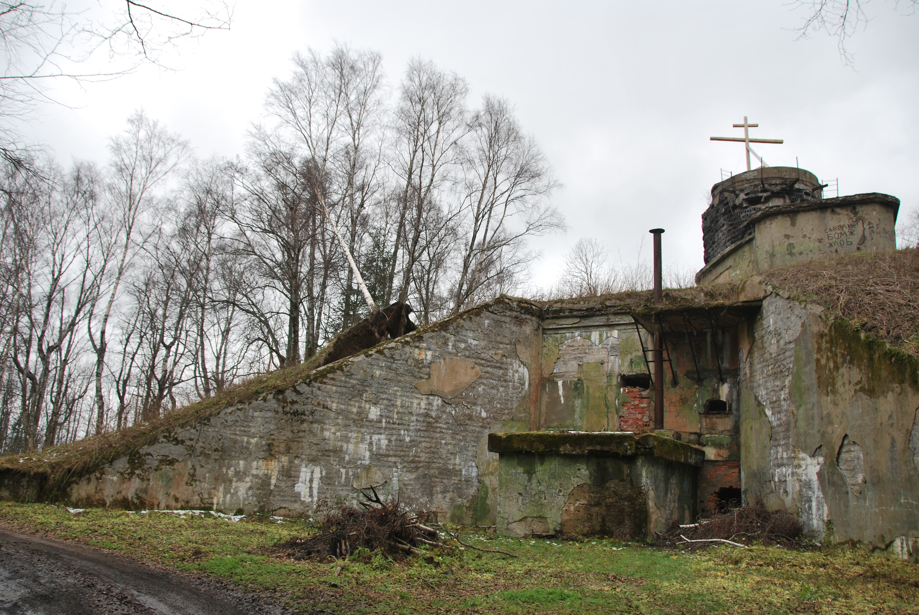 Observation building of Seraya Loshad fort